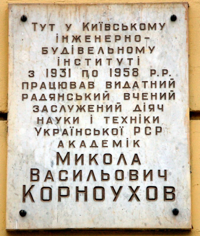 A plaque to Mikola Vasilovich Kornoukhov in Kiev